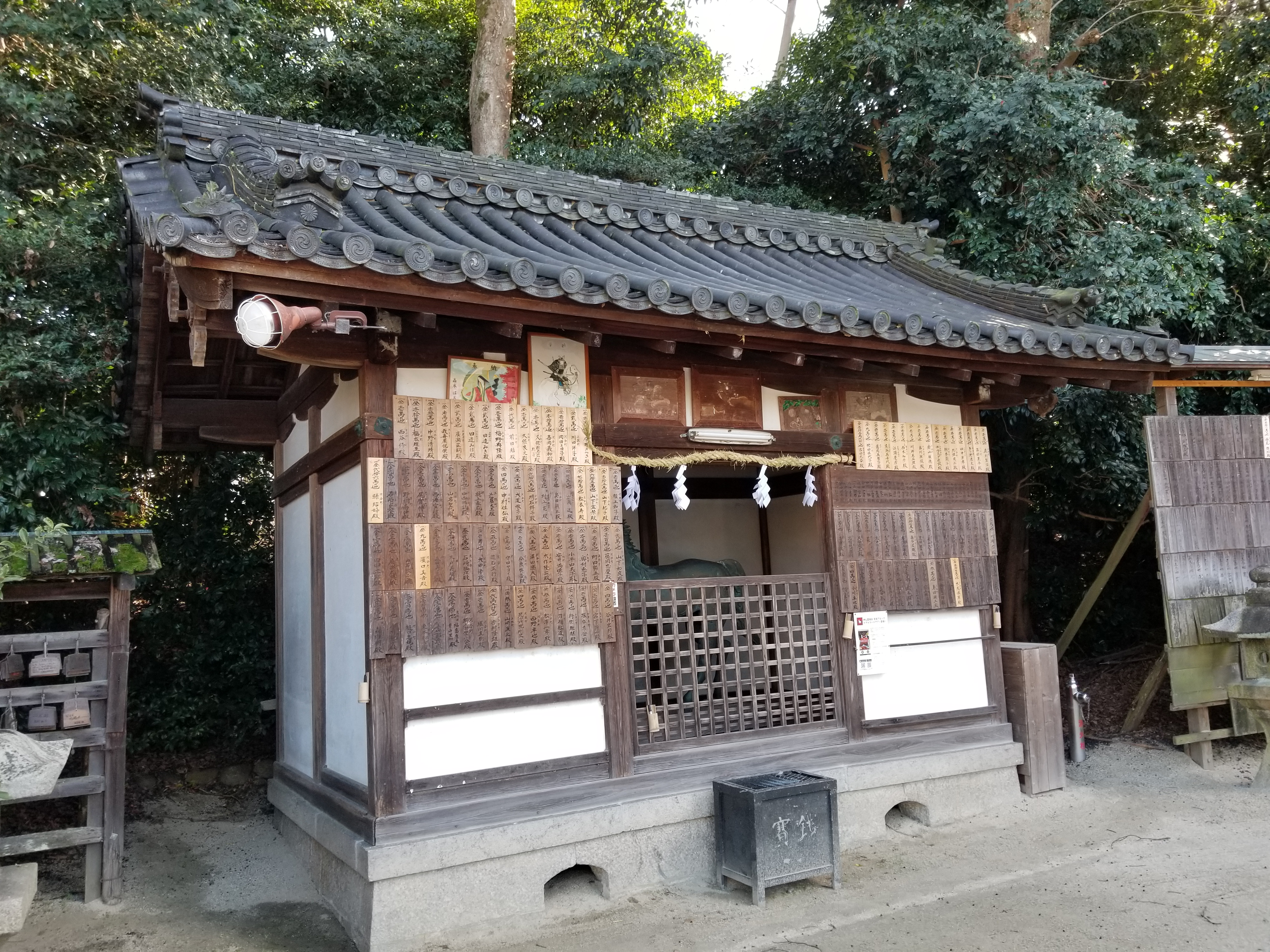 The Hirose Shrine Shinmesha (sacred horse house) has a horse statue inside. Shinme are the steeds of Shinto gods.